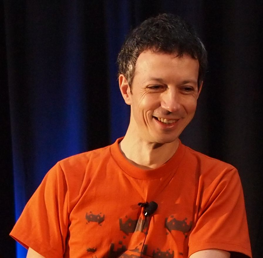 Classic Game Postmortem - OUT OF THIS WORLD/ANOTHER WORLD Eric Chahi (Ubisoft) (V)